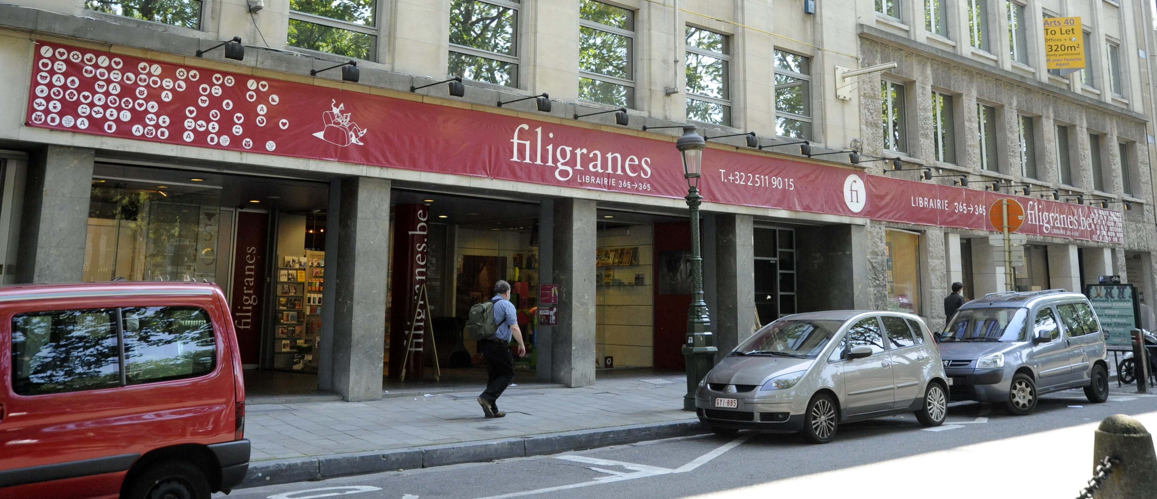 Outside view of the Filigranes bookstore in Brussels